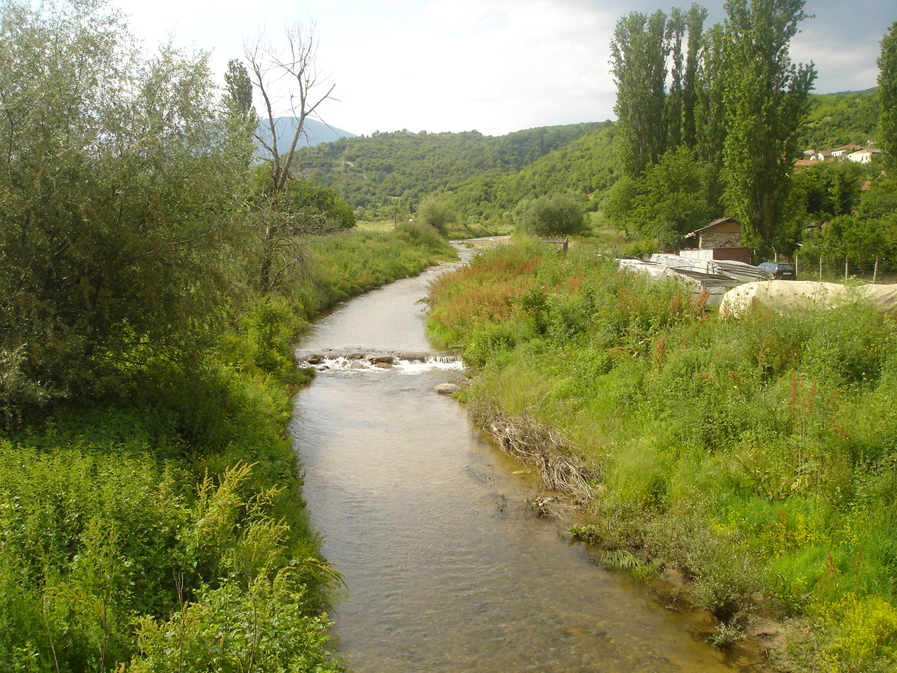 river Izvorchica in the village of Izvor, Čaška Municipality, near Veles, Macedonia